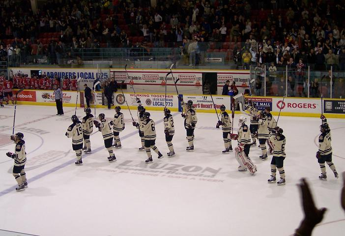 Self-taken photo of Windsor Spitfires saluting fans at Windsor Arena